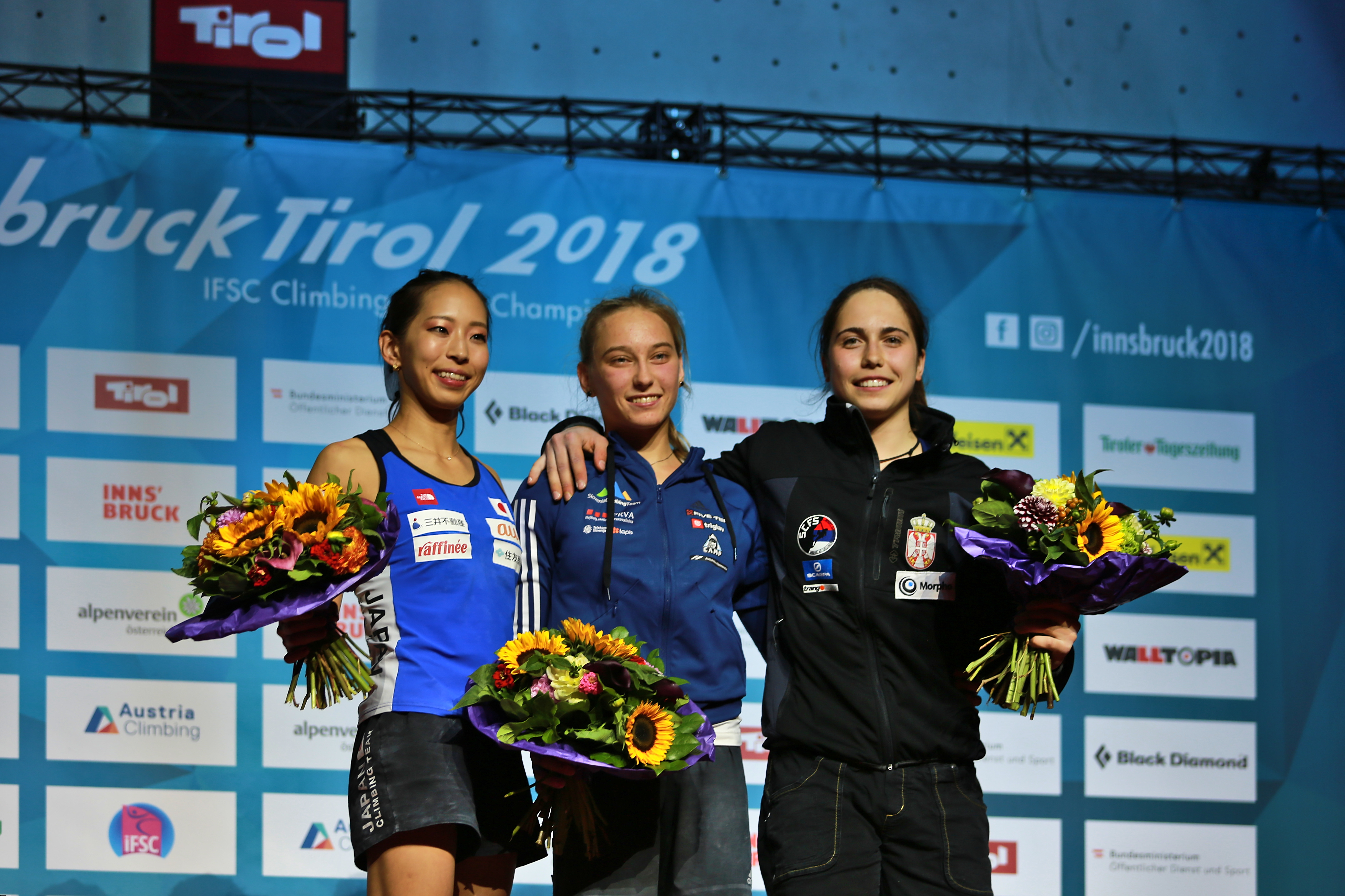 Climbing World Championships 2018 Boulder Final Woman winners